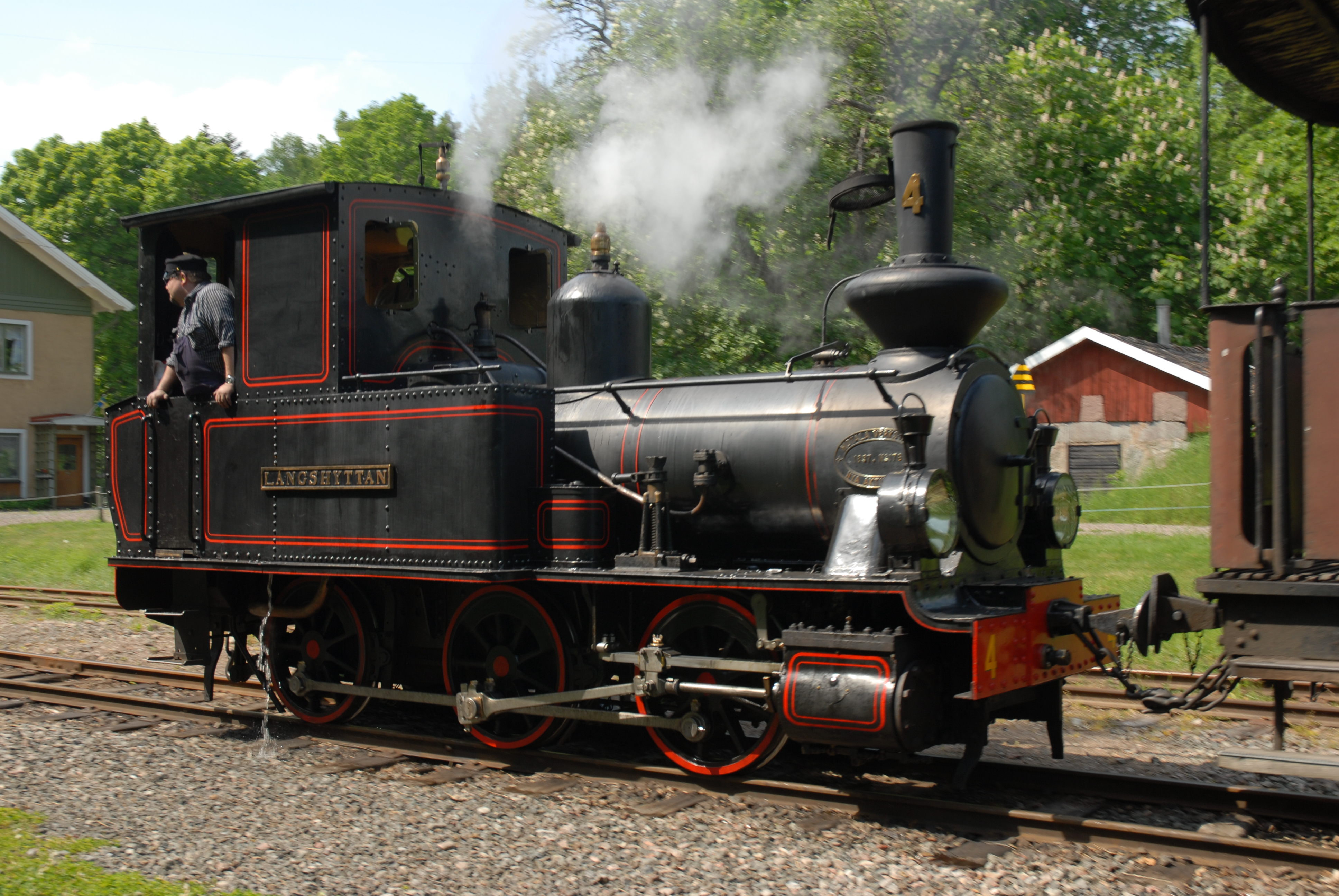 Upsala-Lenna Järnvägs steam engine Långshyttan.